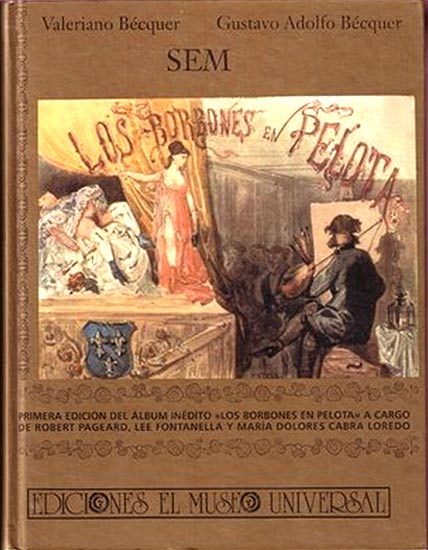 Cover of the book: "SEM: Los Borbones en pelota", satire at the court of Isabel II